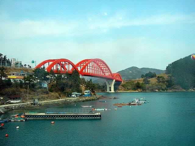 The Bridge in South Sea of Korea